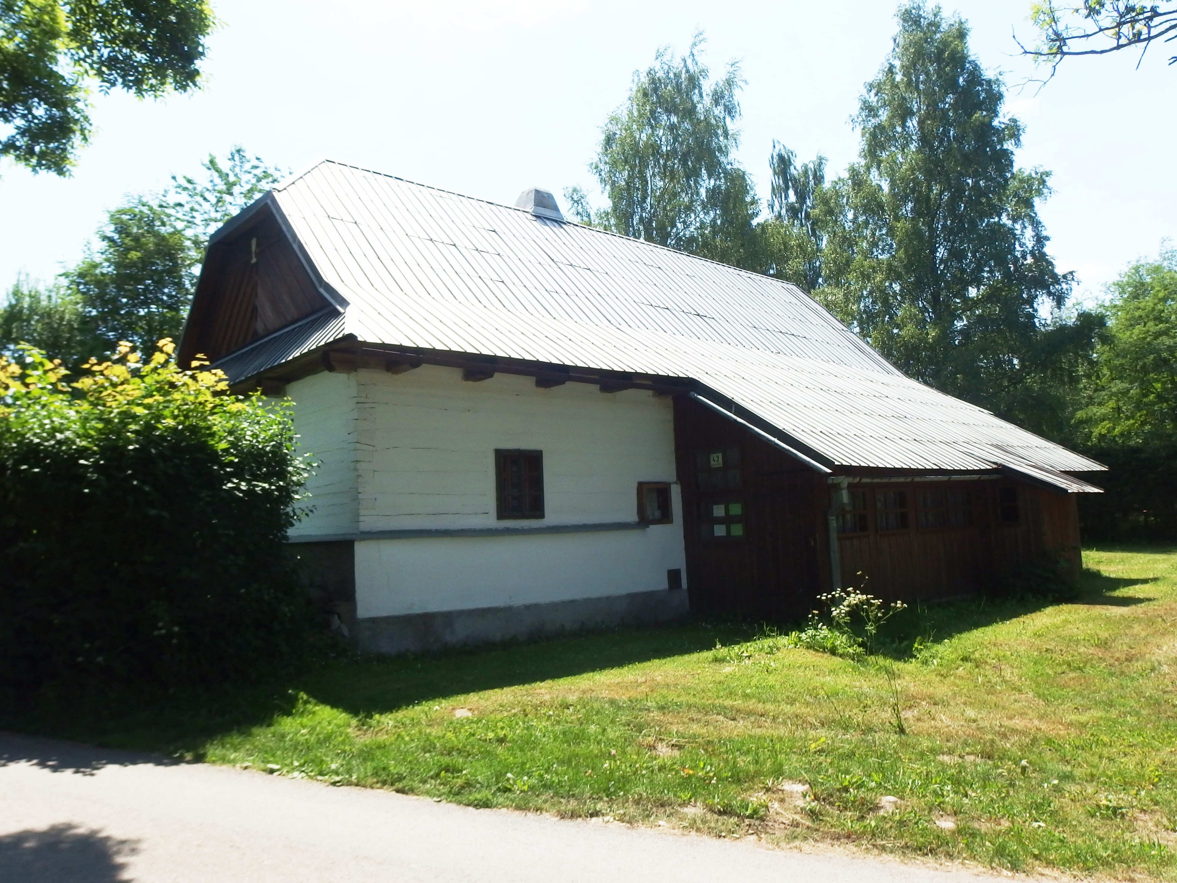 Křižánky, Žďár nad Sázavou District, Czech Republic, part Moravské Křižánky.